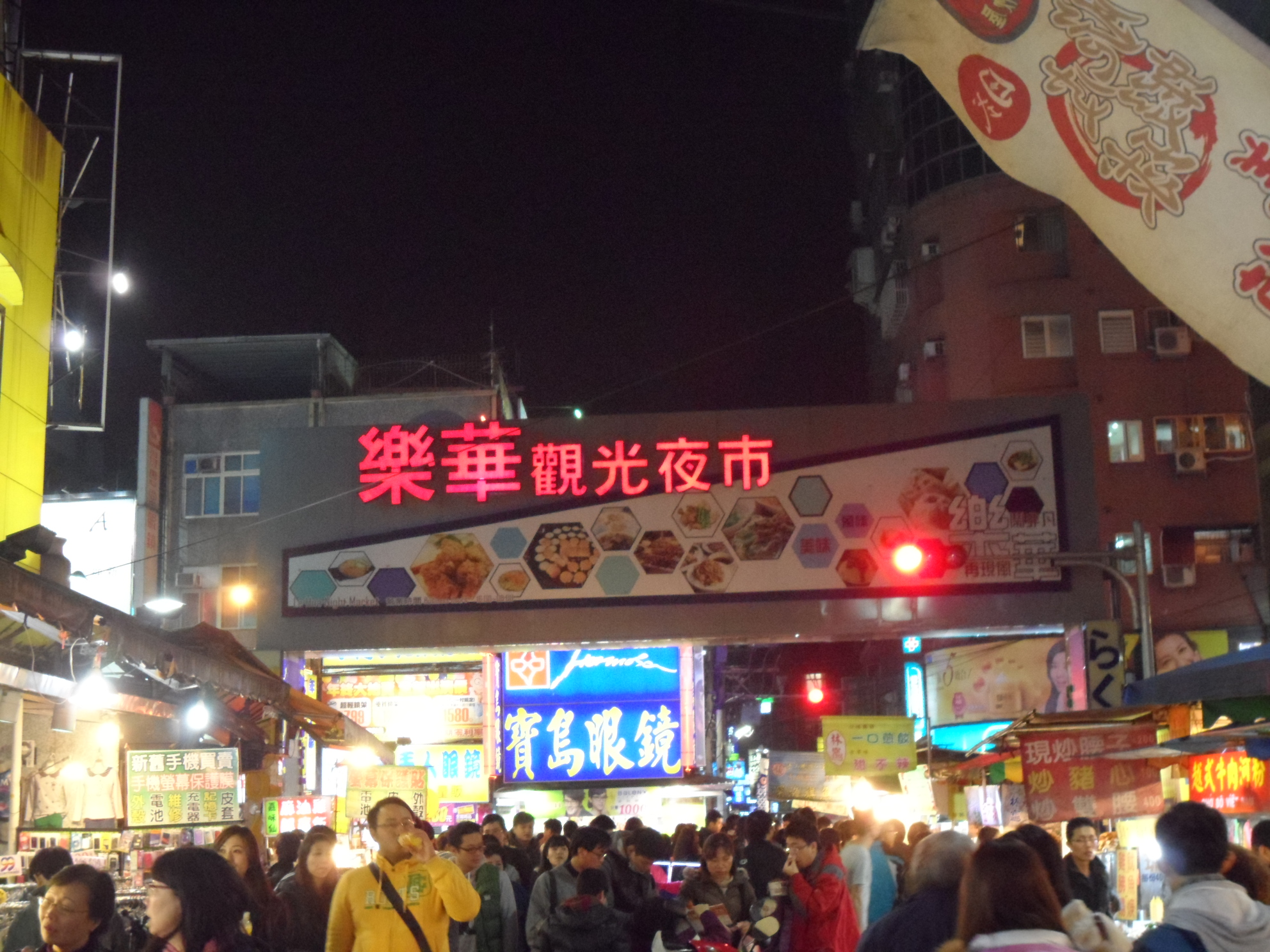 The gate of Lehua Night Market.